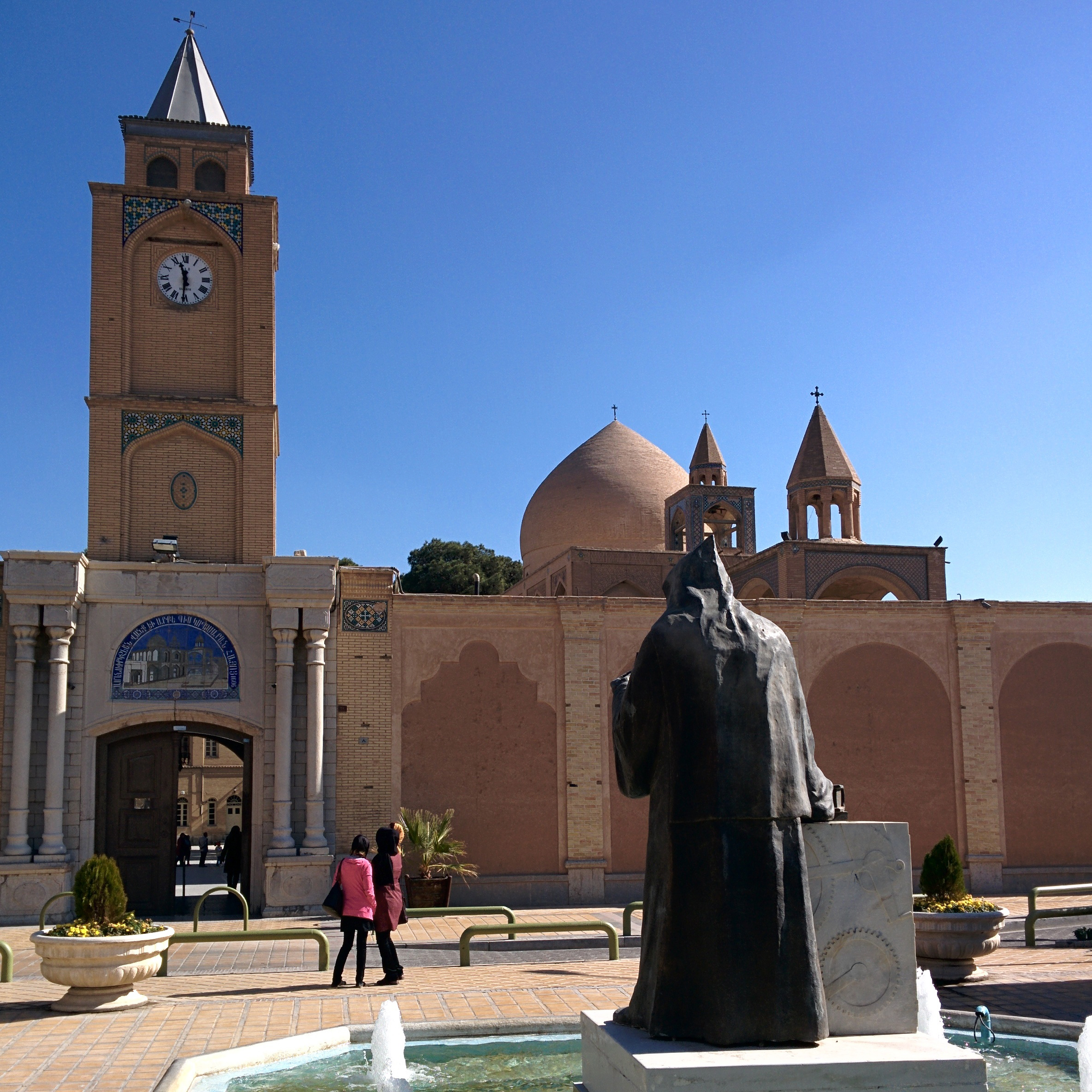 Vank Cathedral of Isfahan